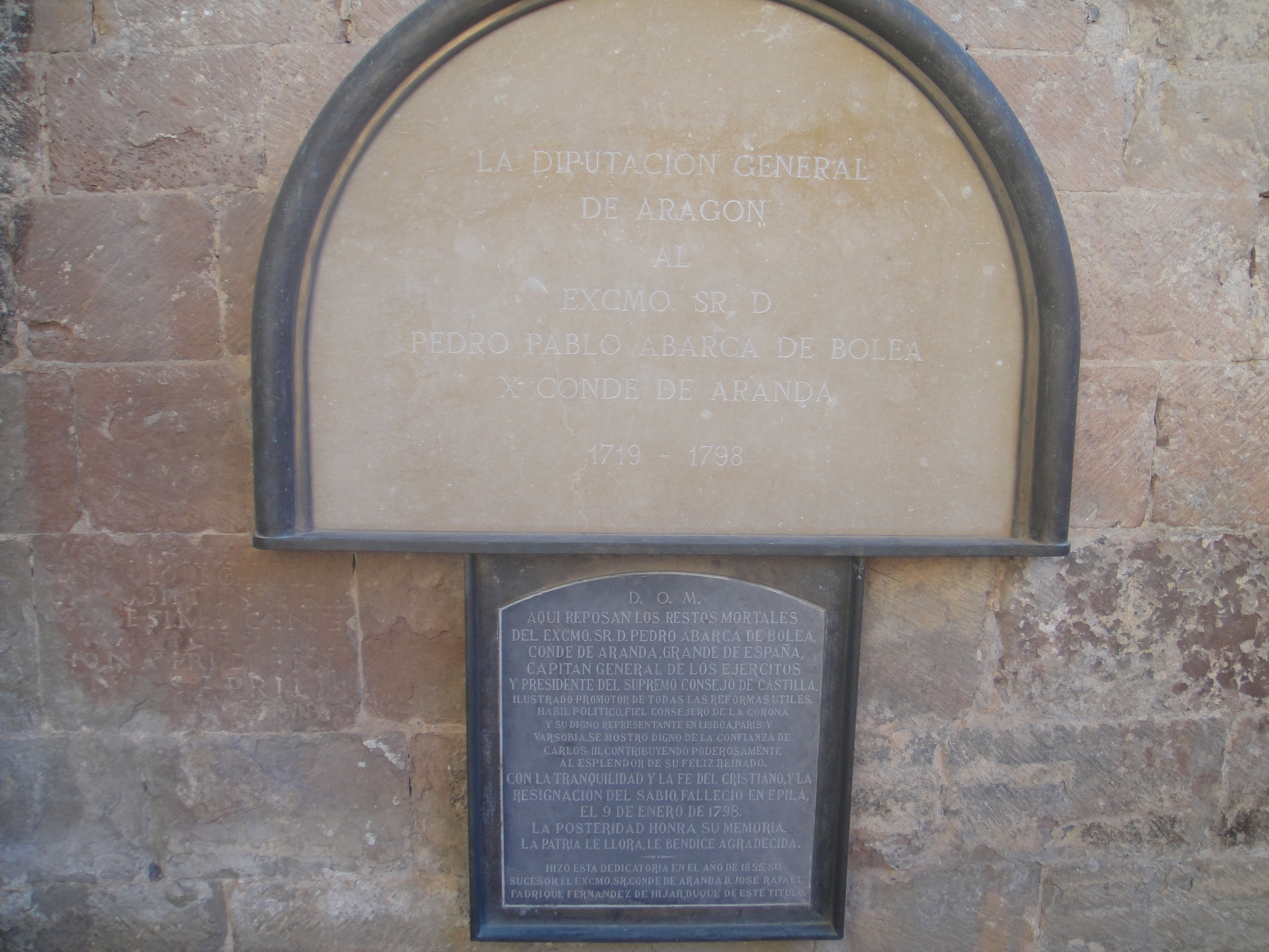 Monastery of San Juan de la Peña, in Aragón. (Spain).